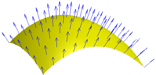 Plot of a surface normalvector field